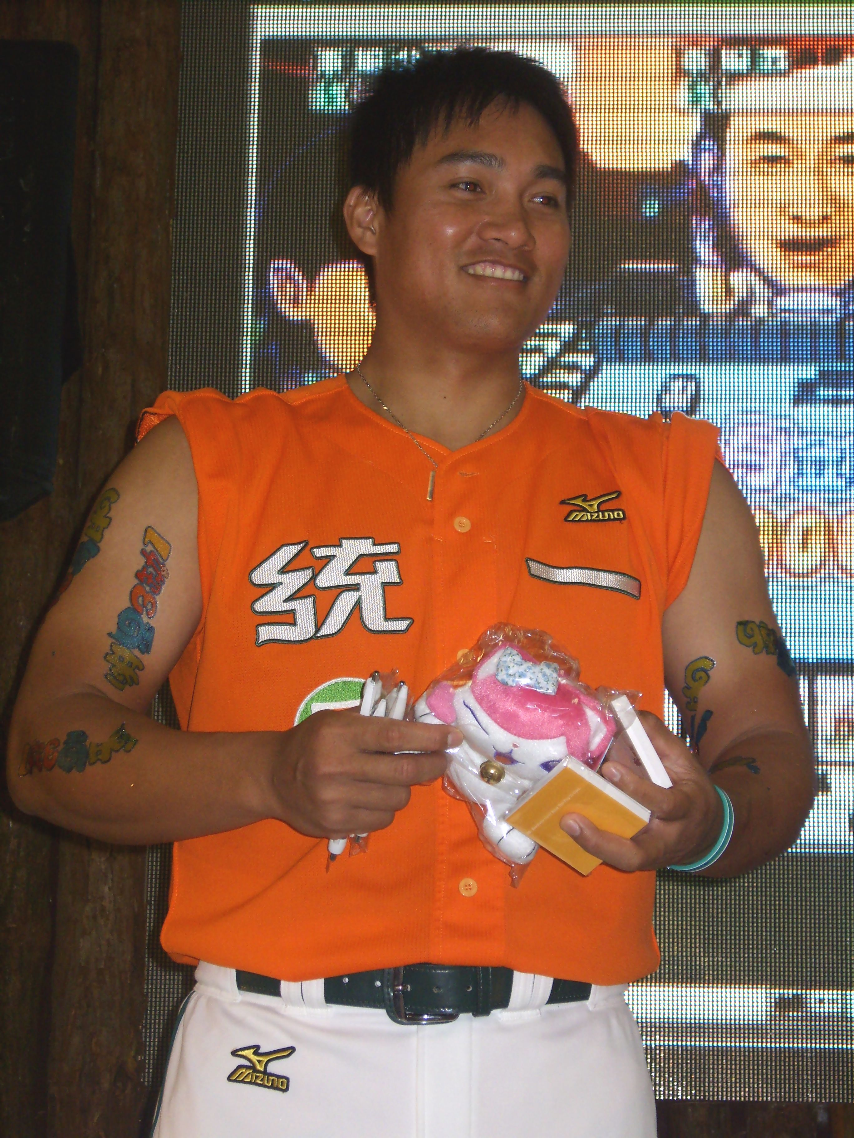 2008 Taipei Game Show: Kuo-ching Kao from Uni-Lions at IGS booth.